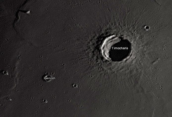 Timocharis lunar crater as seen from Earth with satellite craters labeled